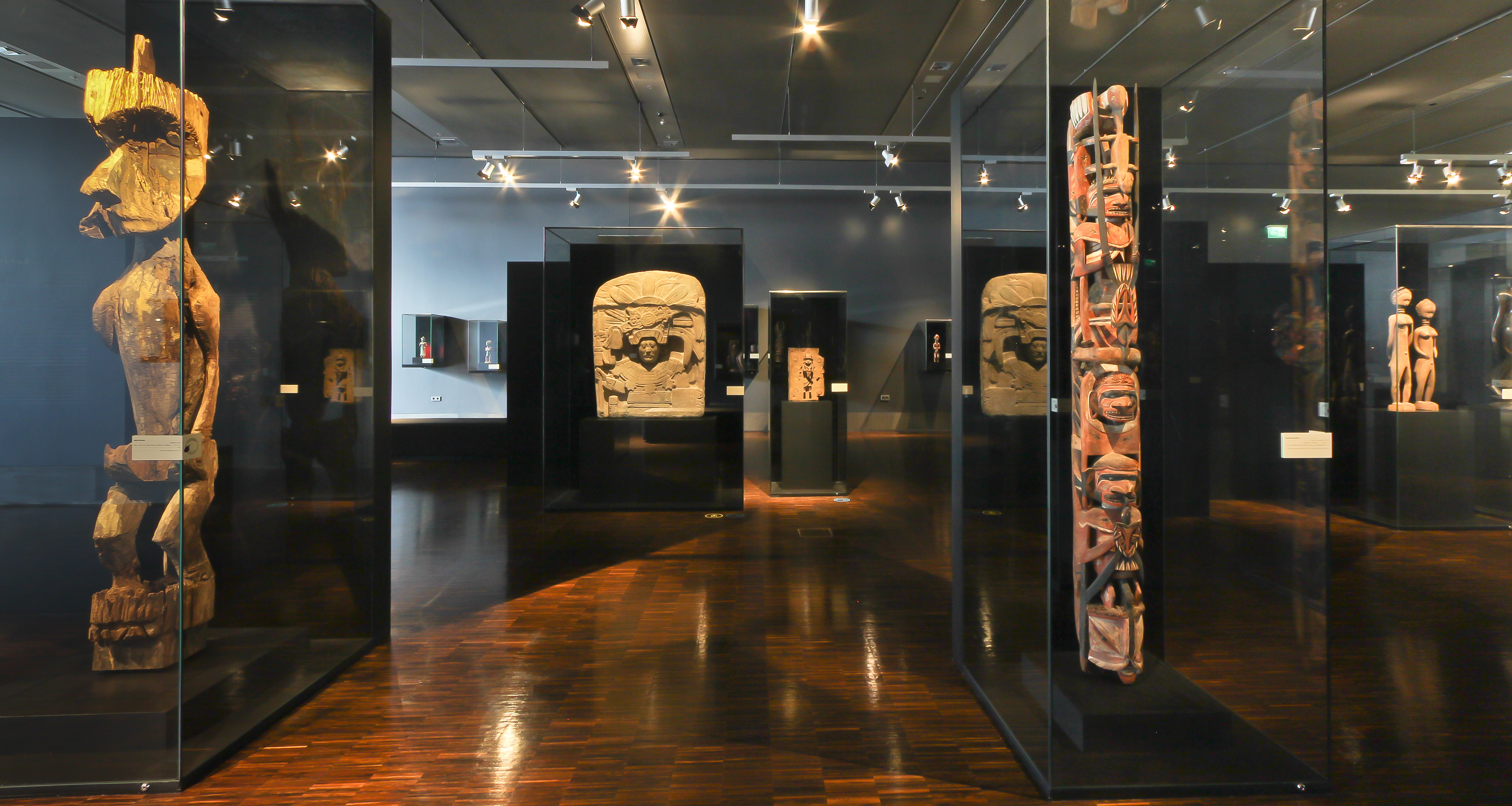 Rautenstrauch-Joest Museum Native nameRautenstrauch-Joest-MuseumLocationCäcilienstraße 29-3350667 Cologne, North Rhine-WestphaliaGermanyCoordinates50° 56′ 04.7″ N, 6° 57′ 01.91″ E Established1901Web Authority control : Q2133582 VIAF: 130110994 ISNI: 0000 0001 0660 2967 LCCN: n50047757 GND: 2018801-8 SUDOC: 029463408 WorldCat institution QS:P195,Q2133582